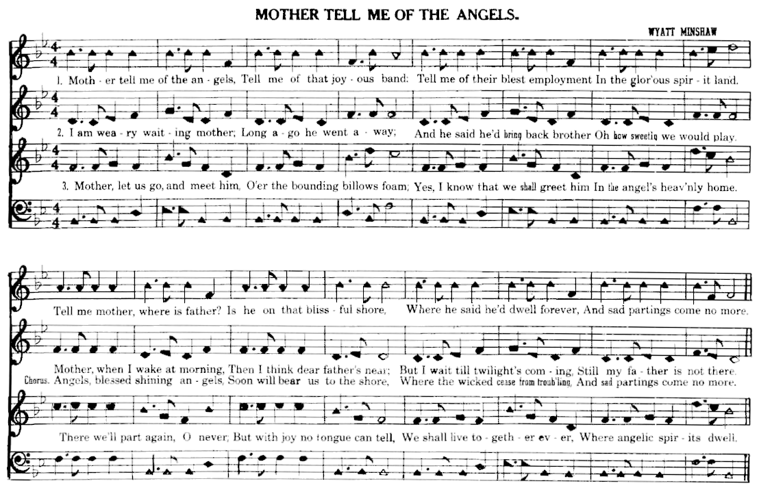 Scan showing a song written using the 7-note shape-note system, in the traditional 4-line horizontal tunebook format. Scanned for the Shape note and Christian Harmony articles.